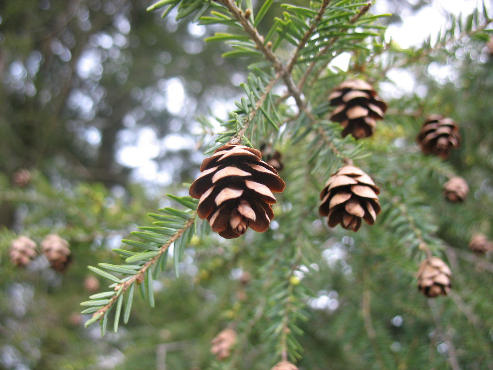 Tsuga canadensis cones, Kentucky